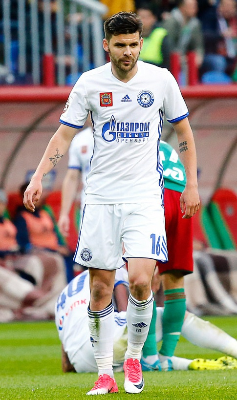 Michal Ďuriš with FC Orenburg in a game against FC Lokomotiv Moscow.